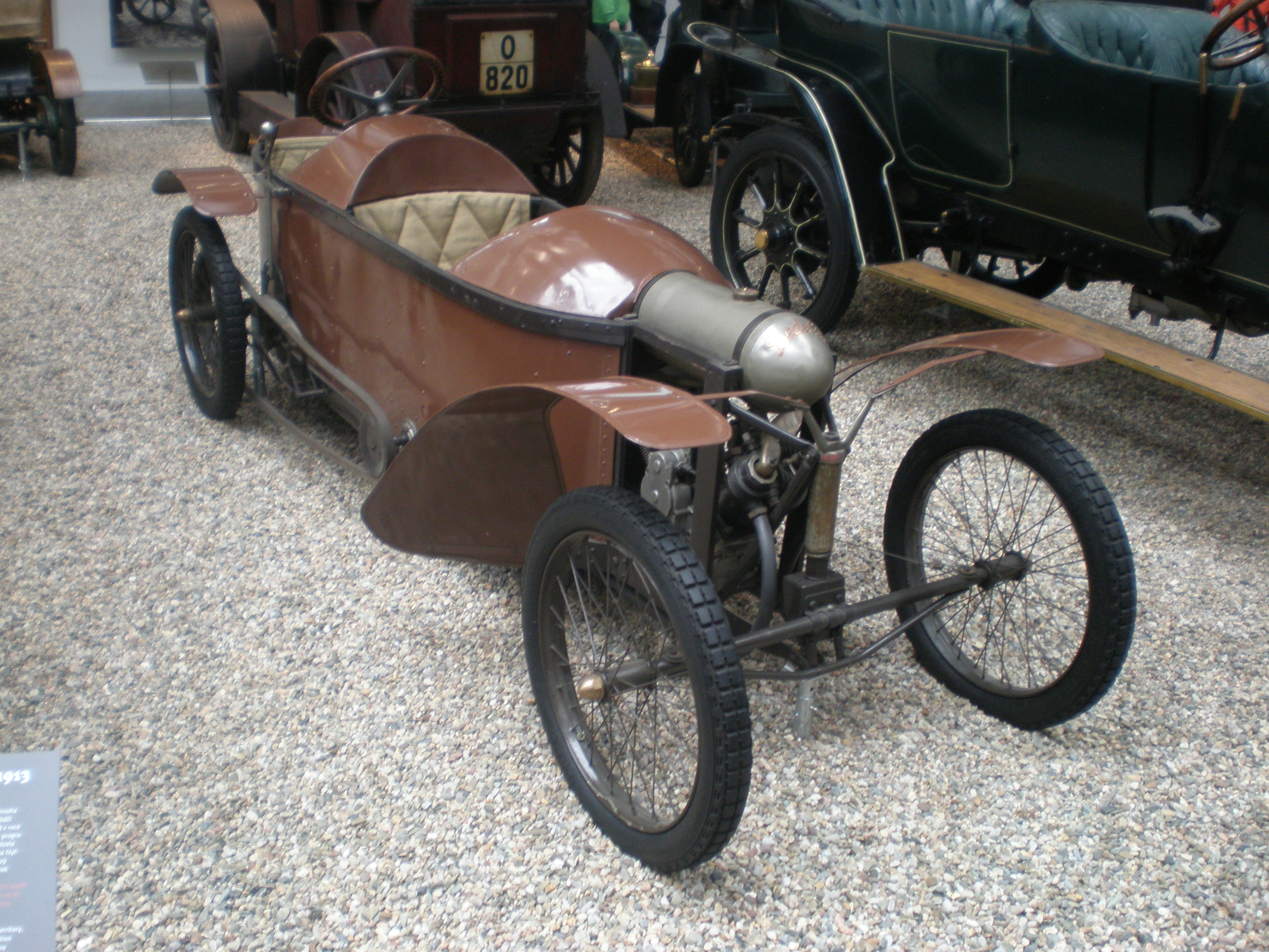 Bédélia cyclecar, 1913